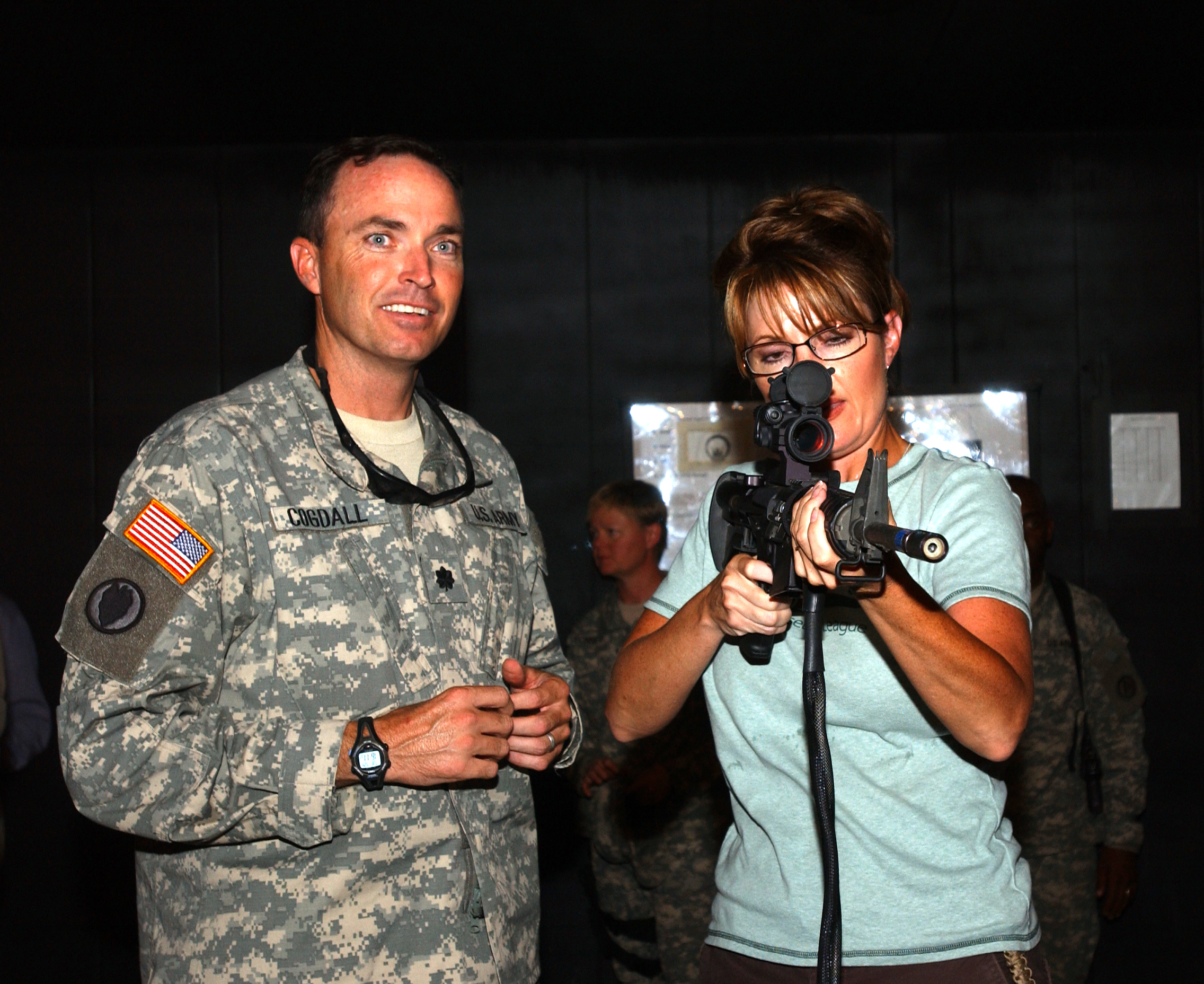 Camp Buehring, Kuwait - Lt. Col. David Cogdall helps Alaska Governor Sarah Palin test out the Engagement Skills Trainer at Camp Buehring, Kuwait, July 24. Palin visited the Soldiers of 3rd Battalion, 297th Infantry Regiment, Alaska National Guard to learn about their mission in Kuwait.